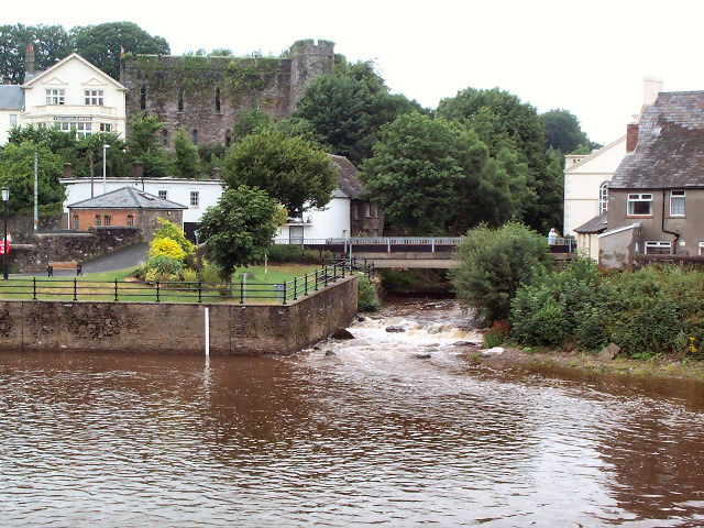 Brecon Castle. Also showing Brecon's eponymous mouth of the River Honddu (Aberhonddu) at its confluence with the Usk.